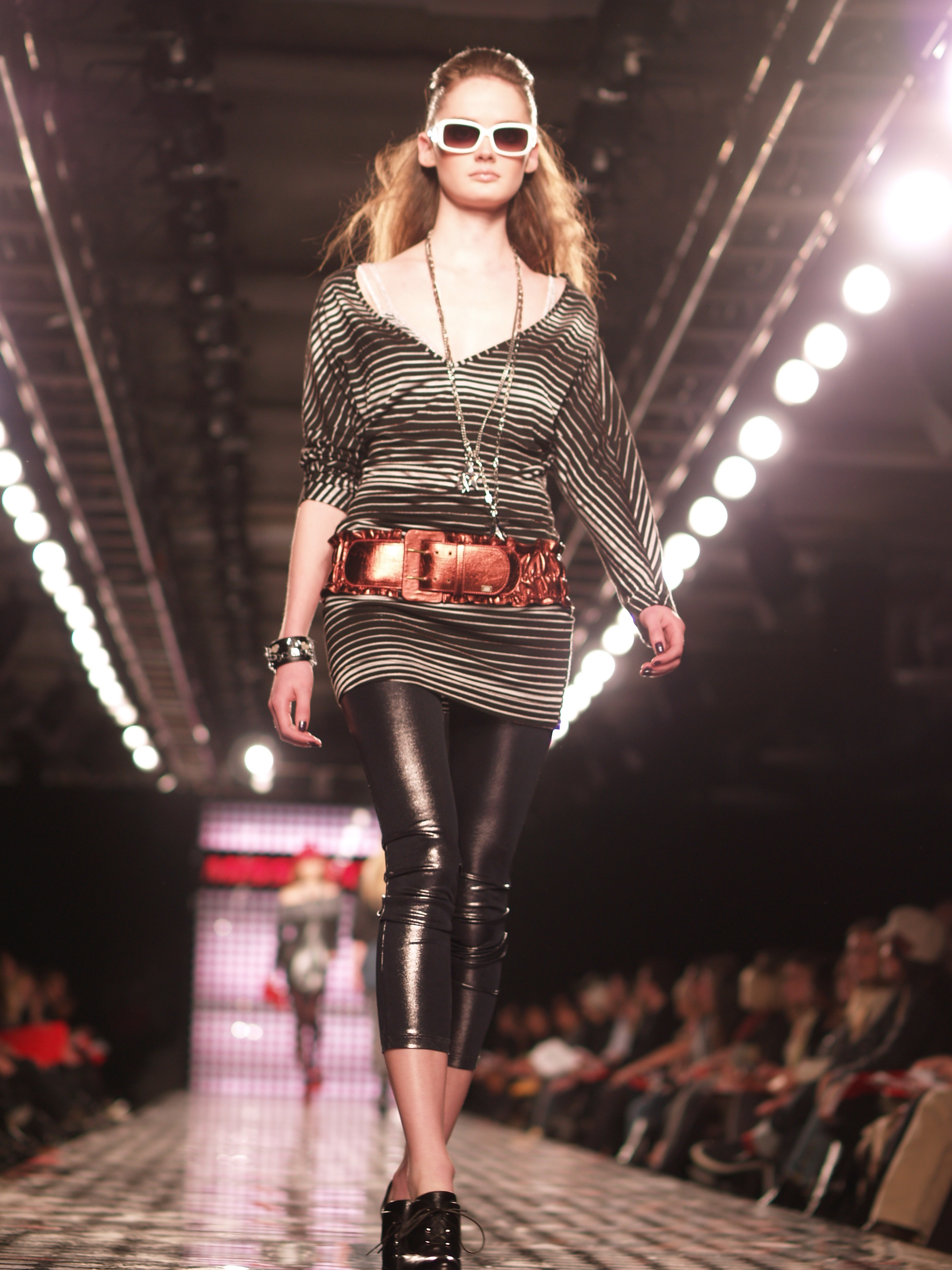 Lisa Cant modeling for Miss Sixty, Fall 2007 New York Fashion Week.